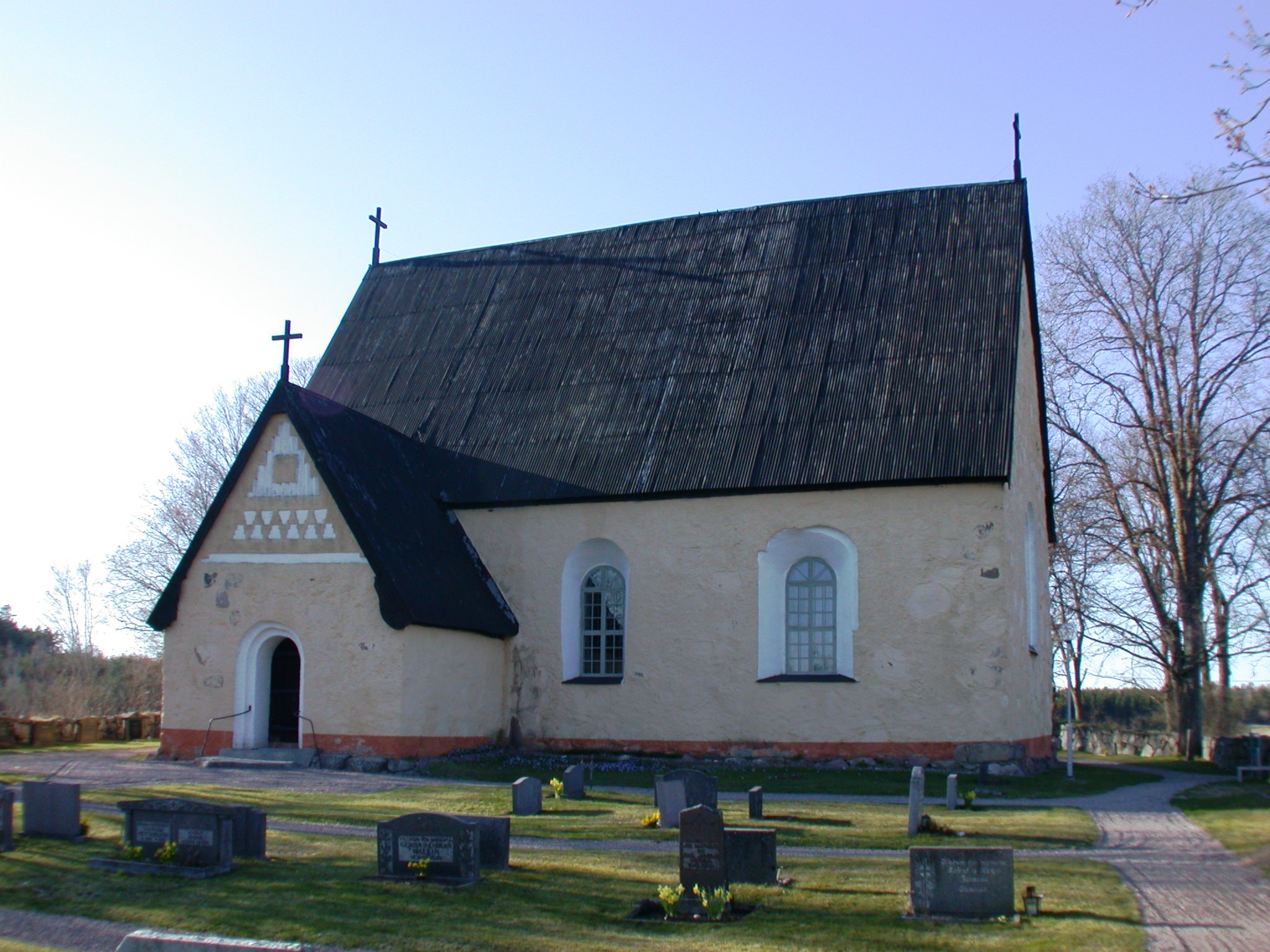 Bladåker church, Uppsala, Diocese of Uppsala, Sweden